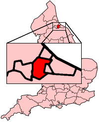 Map of Stockton in England Created by Morwen.